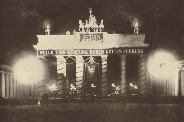 Brandenburger Tor in Berlin 1895 25 years after the battle of Sedan